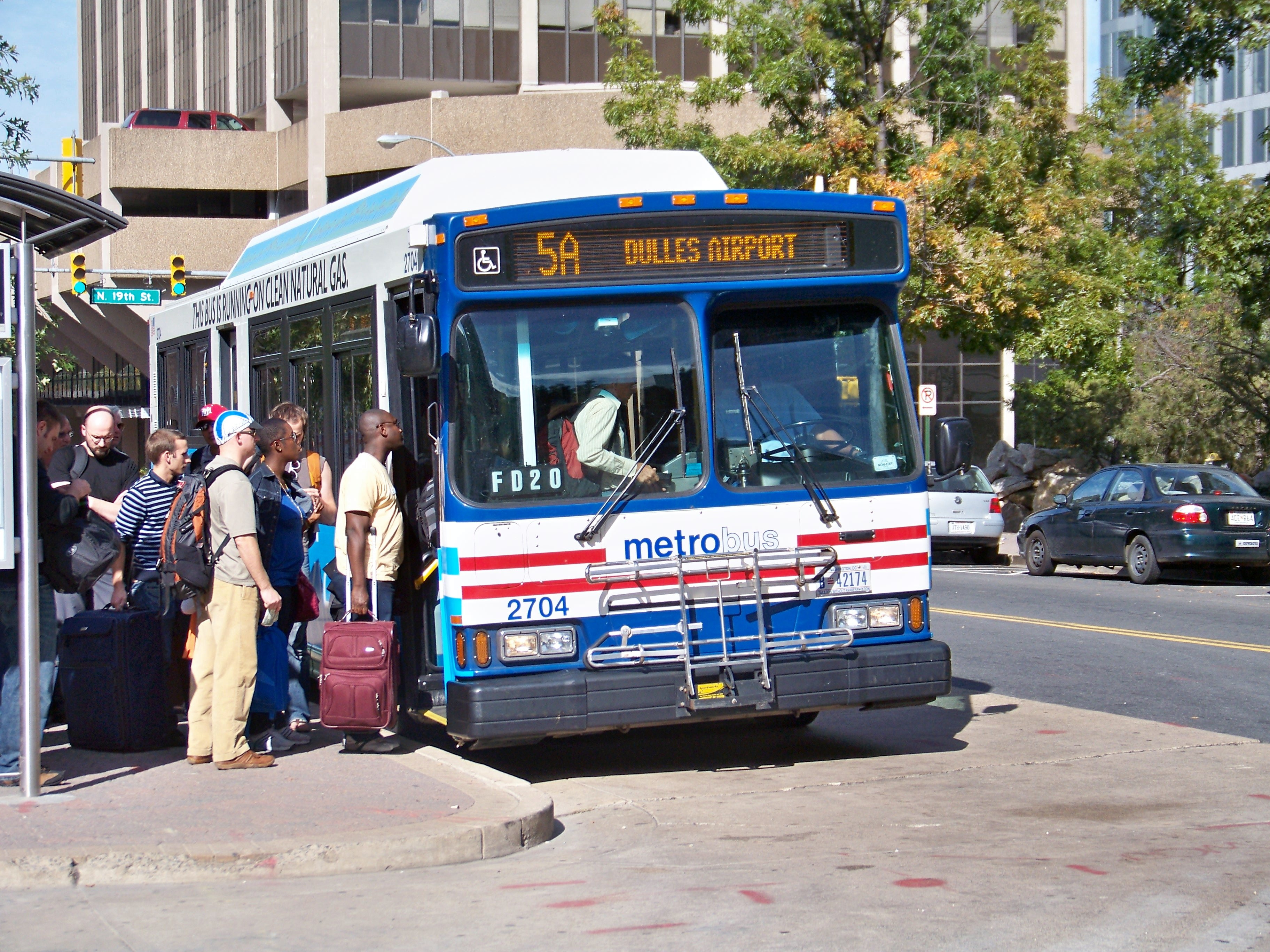 Passengers board Metrobus #2704, running the 5A express service to Dulles Airport, at Rosslyn.